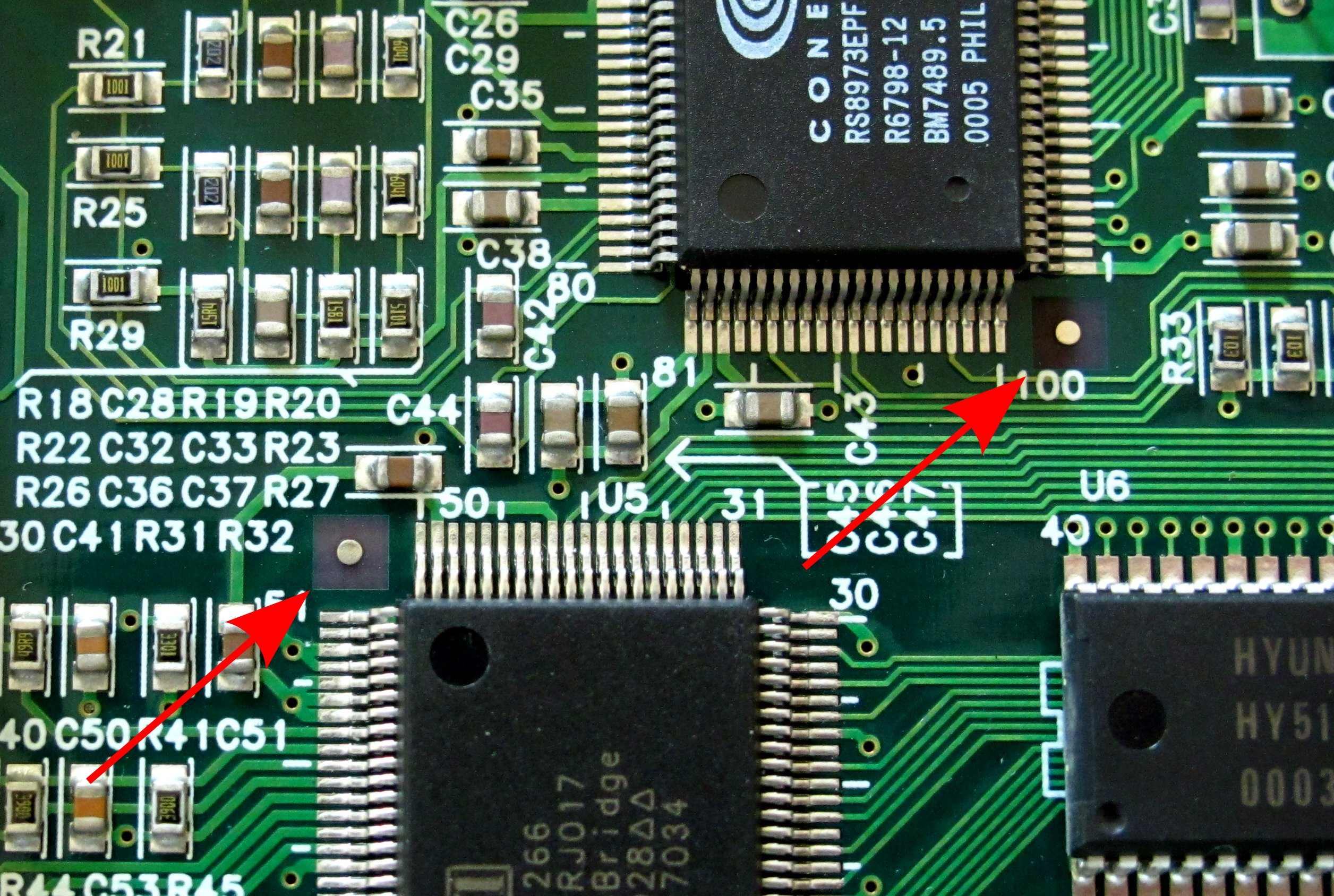 Two fiducial markers on a PCB